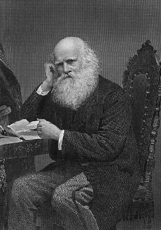 original source: Boyd, James P. Men and Issues of '92. Publishers' Union, en:1892.